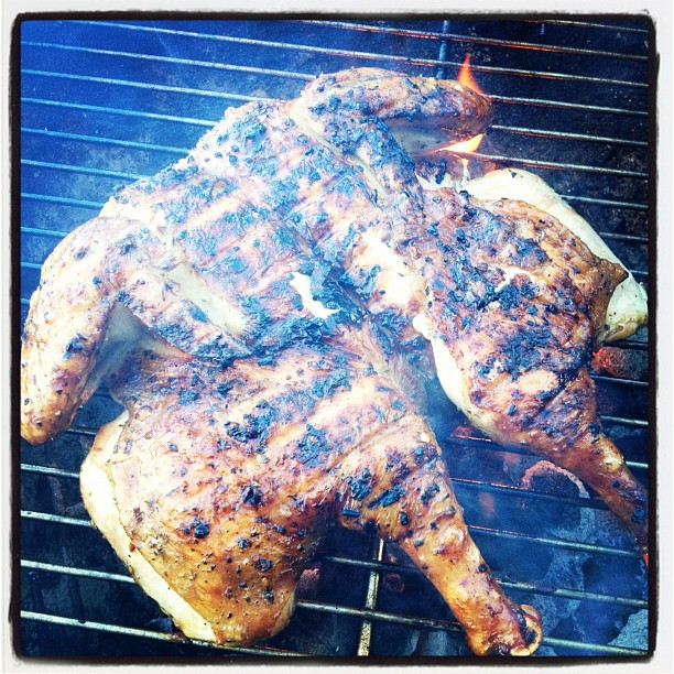 The first 20 minutes on the grill this bird get to spend underneath a brick (I us a cast iron skillet), another 15 minutes on the other side and it's ready to go!